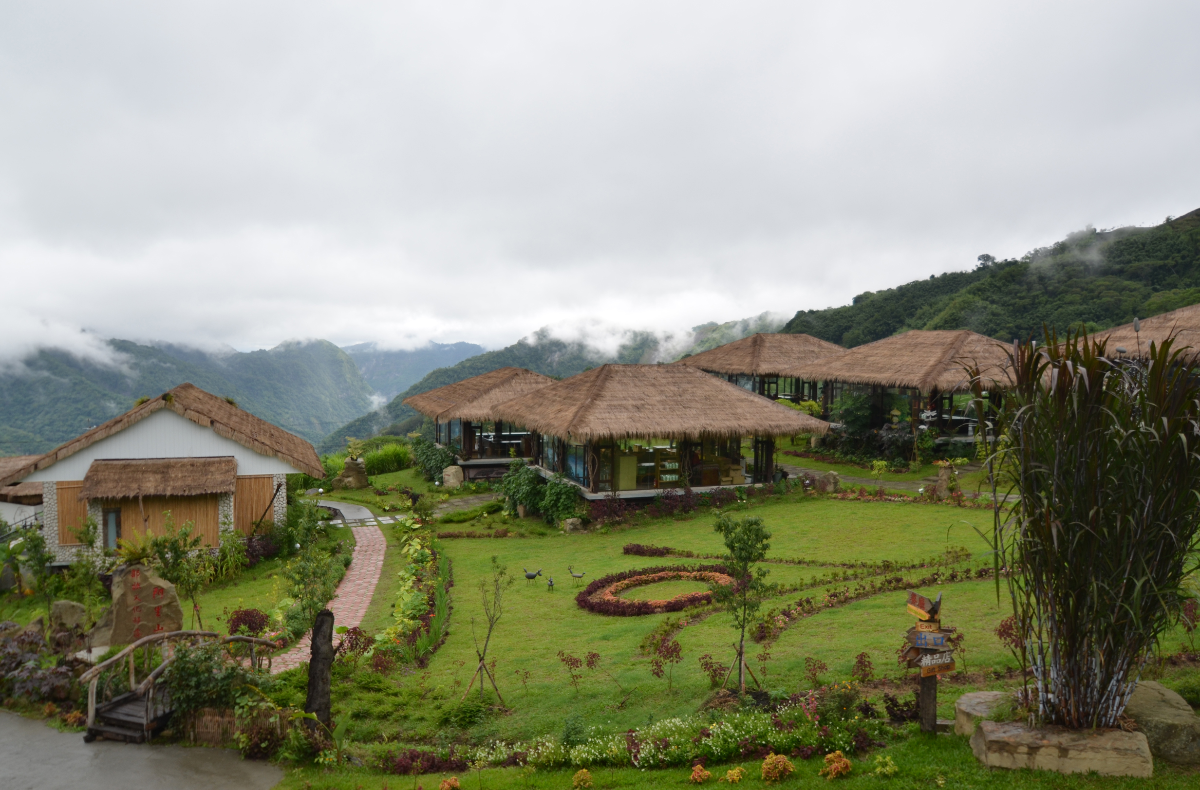 Alishan YUYUPAS,This photo was taken in from